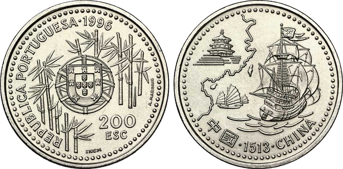 200 Escudos commémorant l'arrivée des Portugais en Chine en 1513, pièce frappée en 1996